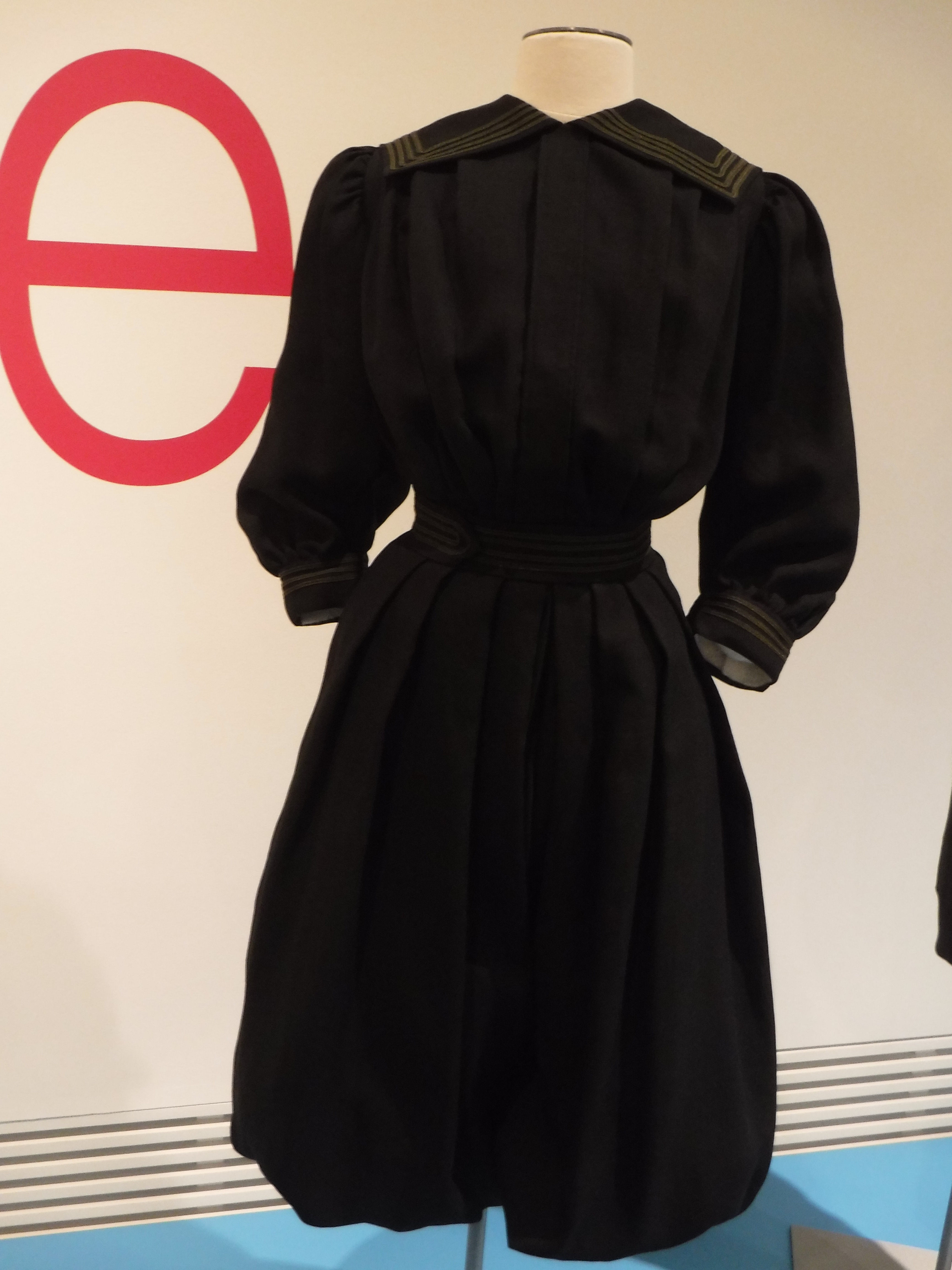 Women's two piece black wool serge Gymnasium suit, ca. 1905-1915, displayed on mannequin as part of the museum exhibition Second Skin: The Science of Stretch at the Chemical Heritage Foundation, on view from November 4, 2016 to May 13, 2017. The gymnasium suit consists of a blouse with a sailor collar and bloomer-style trousers, which are attached at the waist with button to ensure that the blouse will not become untucked during exercise. This type of costume was considered suitable for activities such as playing basketball.